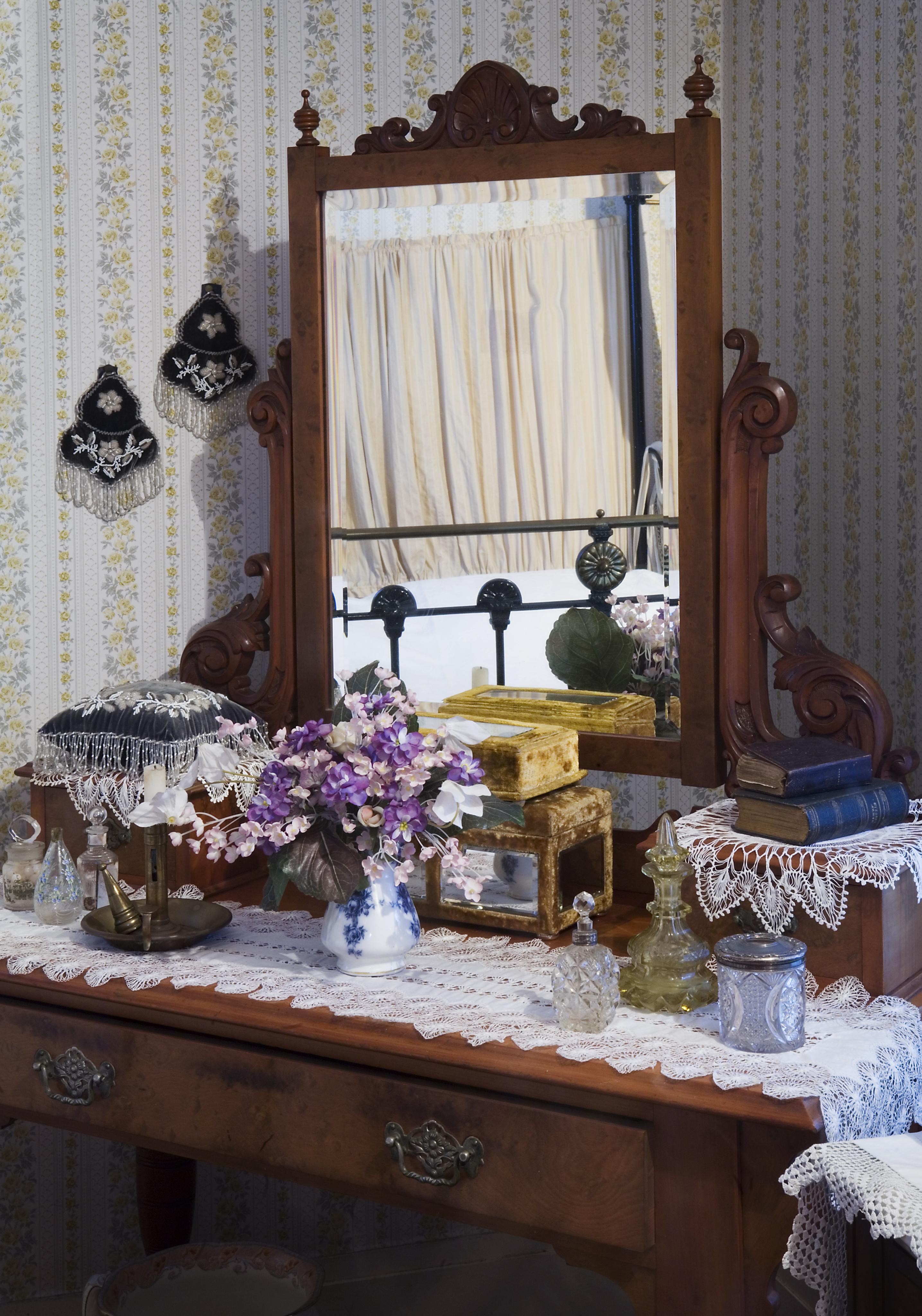 A 19th century bedroom with a vanity mirror and personal hygiene paraphernalia. Victorian Village, Museum of Transport and Technology (MOTAT) , Auckland, New Zealand.